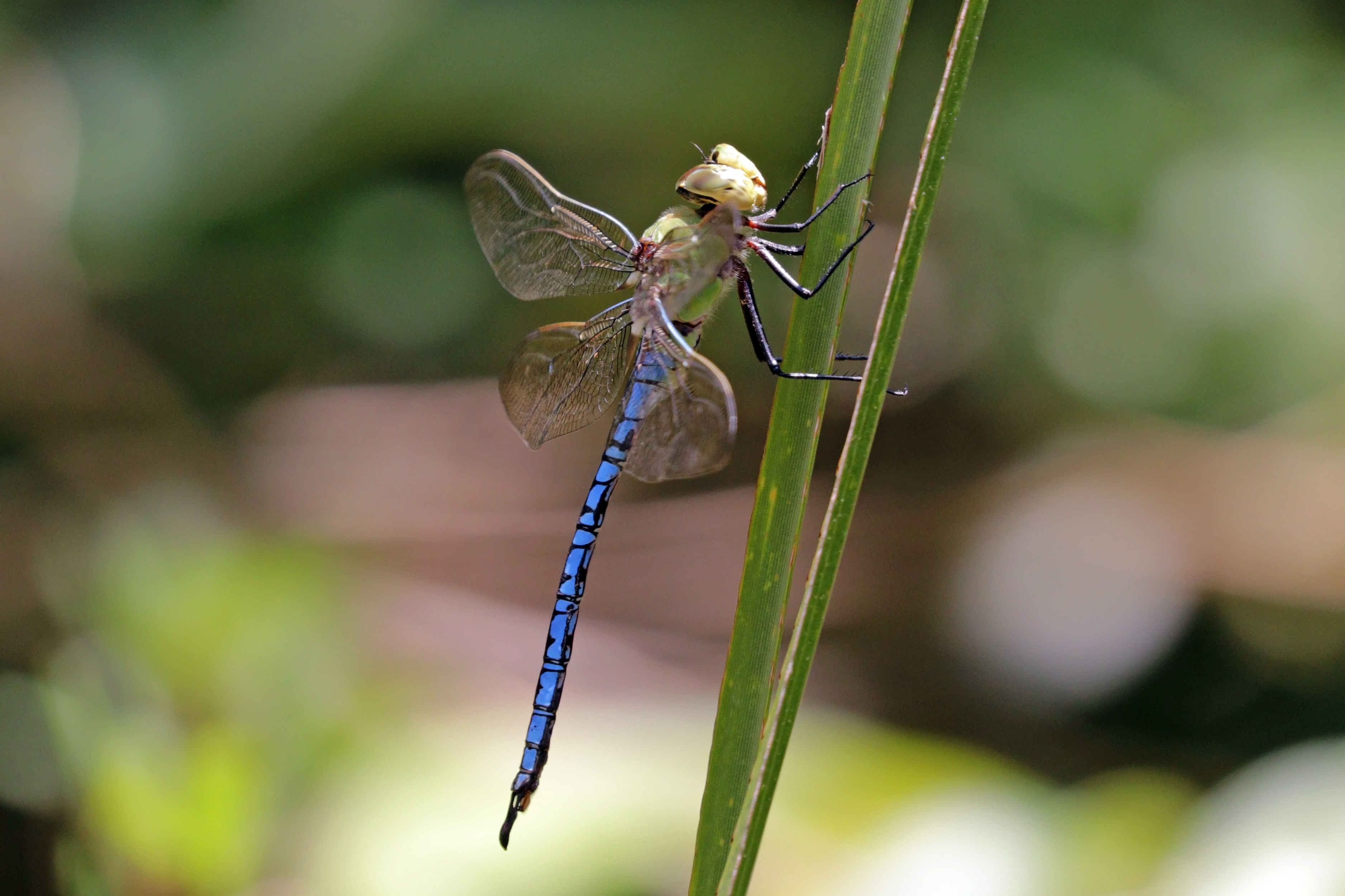 Madagascar emperor (Anax tumorifer) male, Isalo National Park, Madagascar